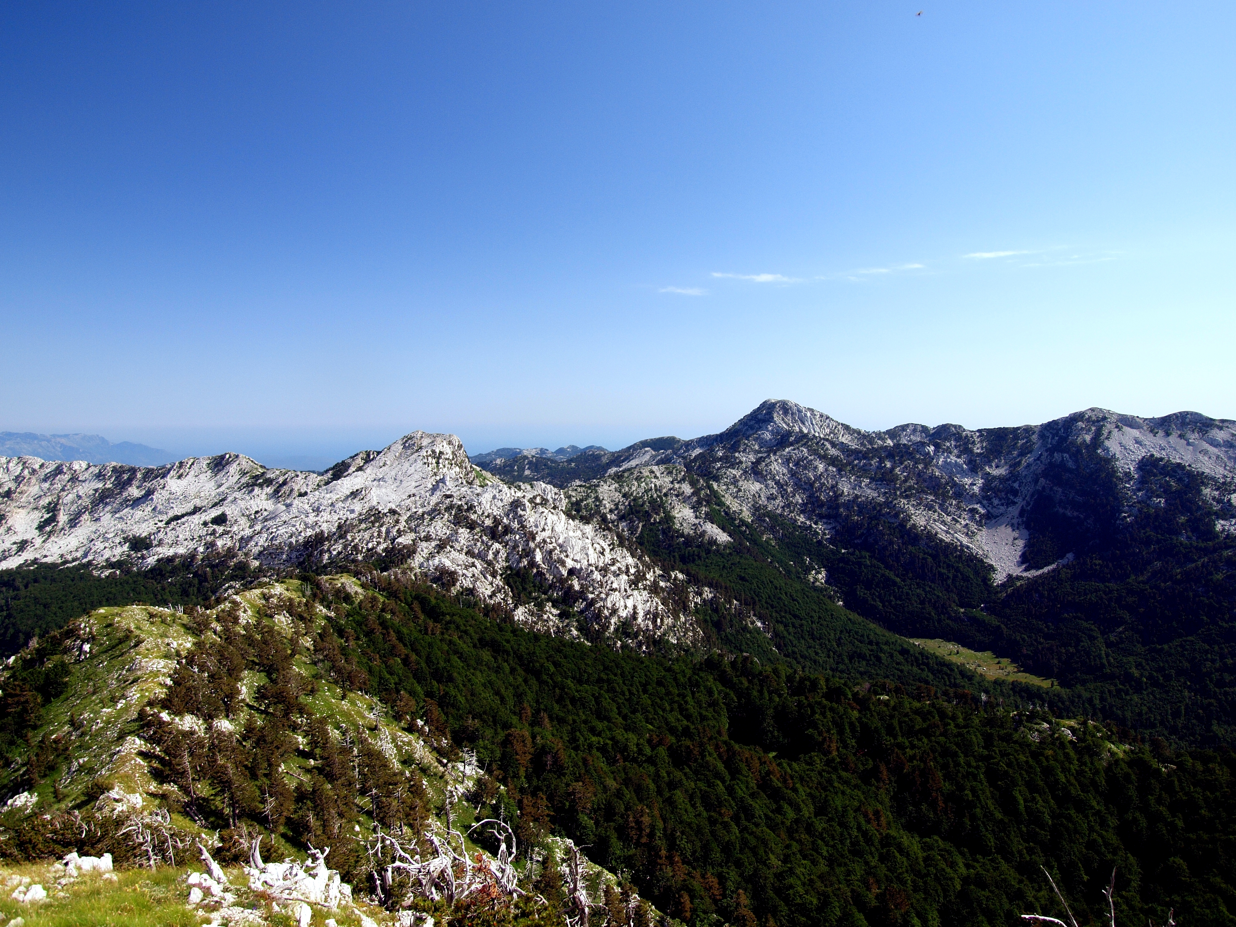 North side of Orjen with Zubacki kabao 1894 m to the right. Left hand is Vucji zub 1805 m. To the foregraound U-shaped valley Dobri do. Orjen Gebirge vom Norden gegen die Adria